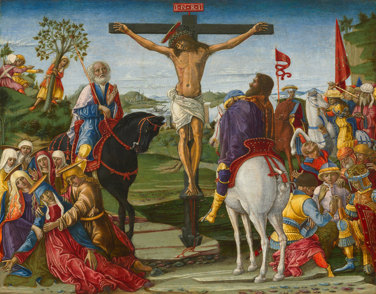 Benvenuto di Giovanni, The Crucifixion, Italian, 1436 - before 1517, probably 1491, tempera on panel, Samuel H. Kress Collection